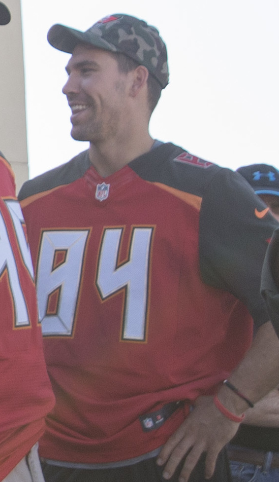 U.S. Air Force Capt. Stephen Kemp, a KC-135 Stratotanker pilot assigned to the 91st Air Refueling Squadron, talks with Tampa Bay Buccaneers football players at MacDill Air Force Base, Fla., Oct 30, 2018. The Buccaneers toured a KC-135 Stratotanker static display, visited U.S. Central Command and spent time with the 6th Security Forces Squadron defenders during their visit to MacDill. (U.S. Air Force photo by Airman 1st Class Ryan C. Grossklag)